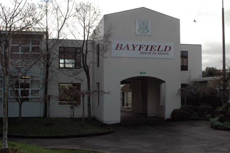 The Arch at Bayfield High School, Shore St, Dunedin, New Zealand.